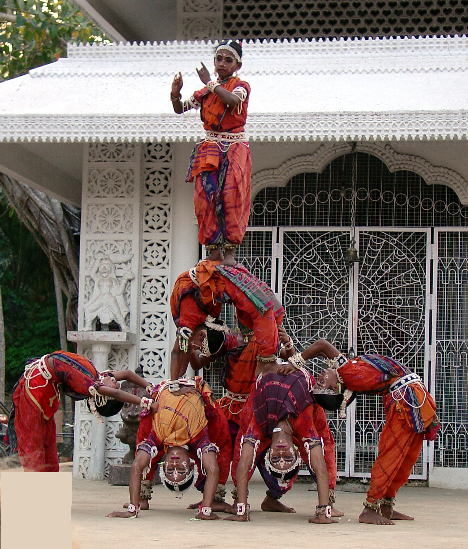 Gotipua Dance. Raghurajpur Heritage Village, Orissa In spite of the young age of the performers, the company is trained to a professional standard. Instruments used with the dance include drum, cymbals, harmonium, violin, and flute.